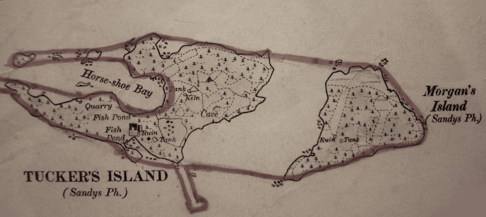 Tucker's & Morgan's Islands, Bermuda, which were joined together and made contiguous with the Main Island of Bermuda in the 1940s in order to construct the US Naval Operating Base.